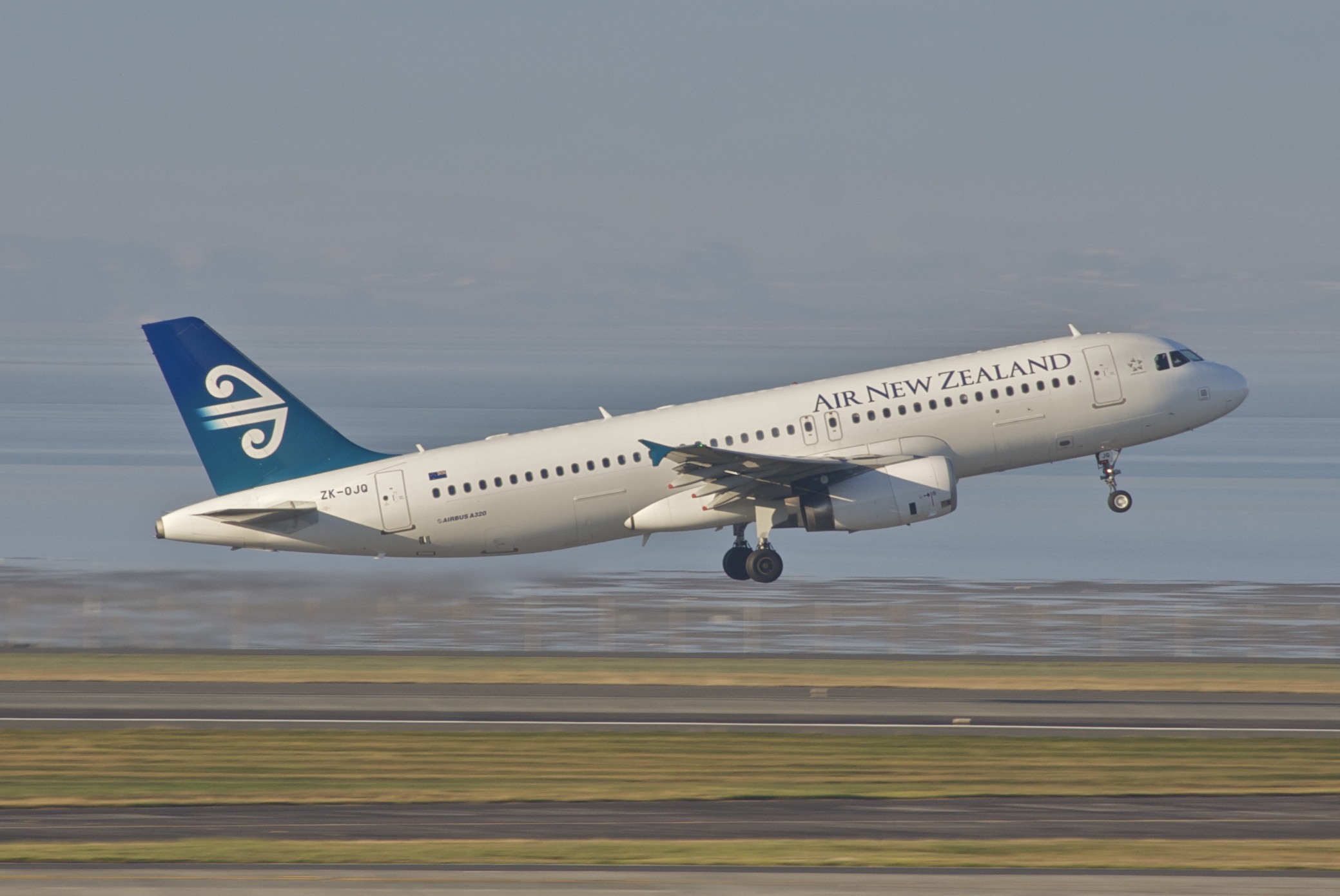 Air New Zealand Airbus A320-232; ZK-OJQ@AKL;11.07.2012/662aq